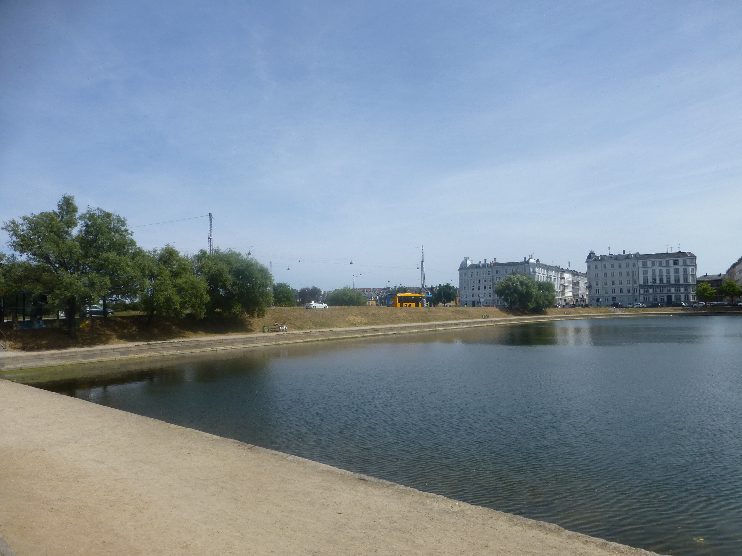 The bridge (or rather embankment) Fredensbro in Indre By in Copenhagen.